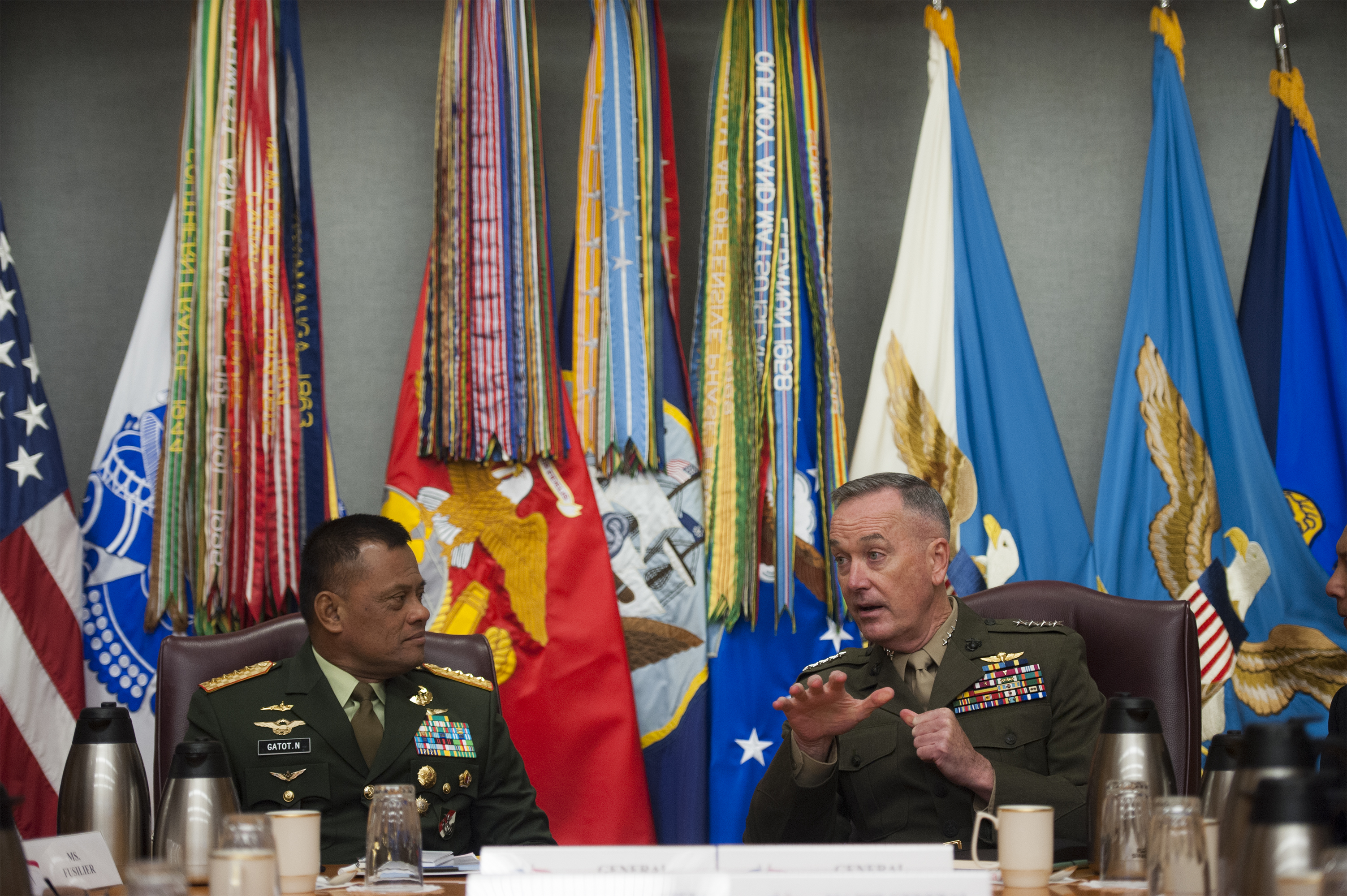 U.S. Marine Gen. Joseph F. Dunford Jr., chairman of the Joint Chiefs of Staff, meets with Gen. Gatot Nurmantyo, Commander-in-Chief, Indonesian National Defense Forces, at the Pentagon, Feb. 18th, 2016. (DoD Photo by Navy Petty Officer 2nd Class Dominique A. Pineiro)